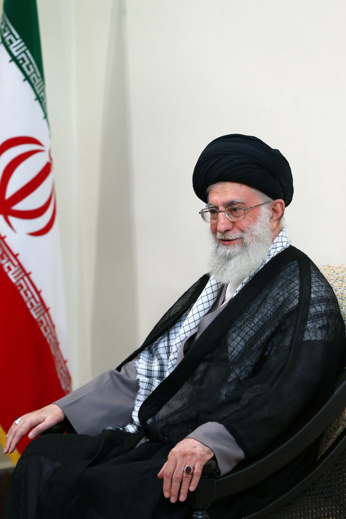 Ali Khamenei, second supreme leader of Iran meeting Heinz Fischer and his cabinet in Tehran.